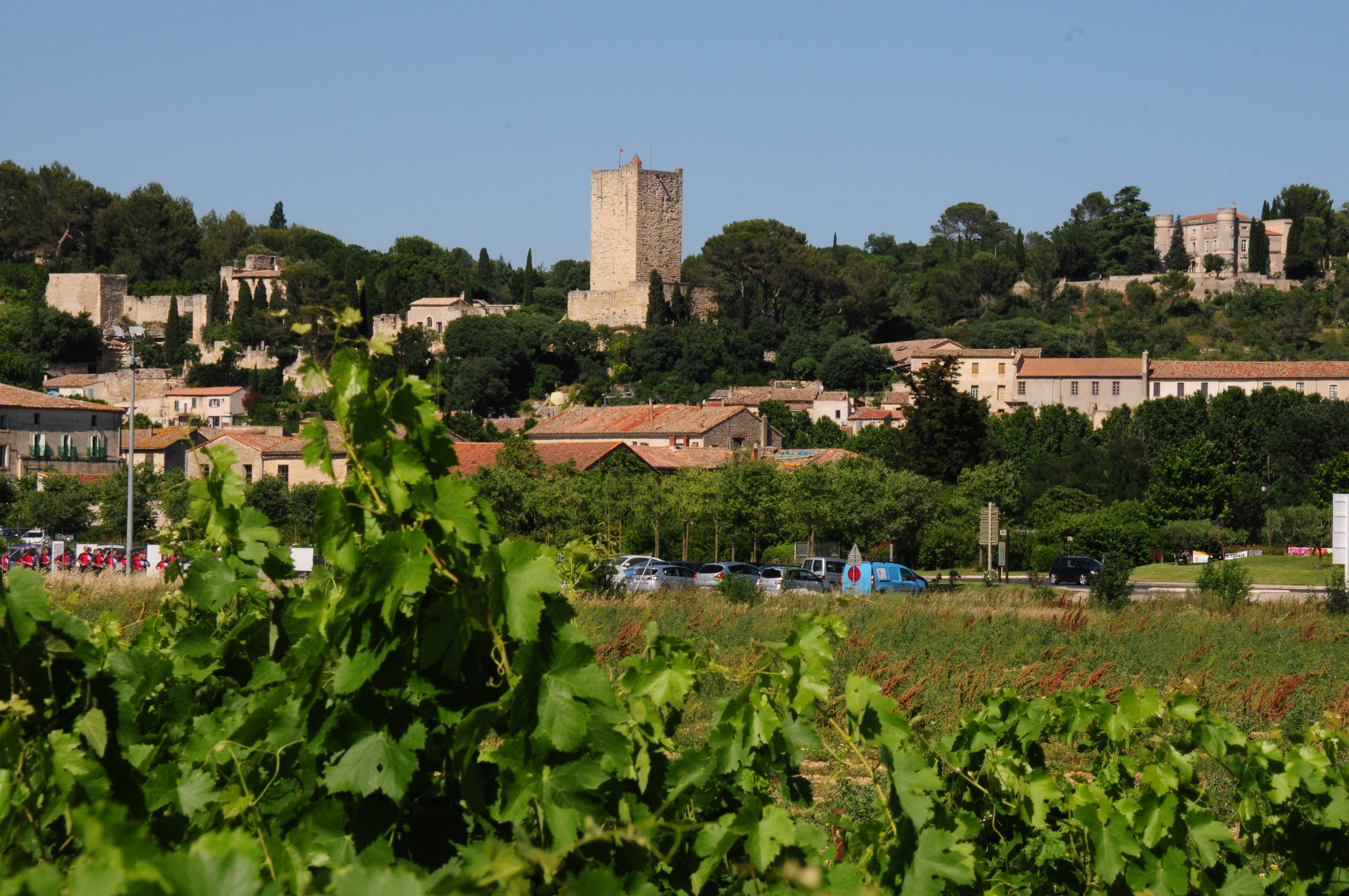 Panorama of Sommieres with its castle upon the hill